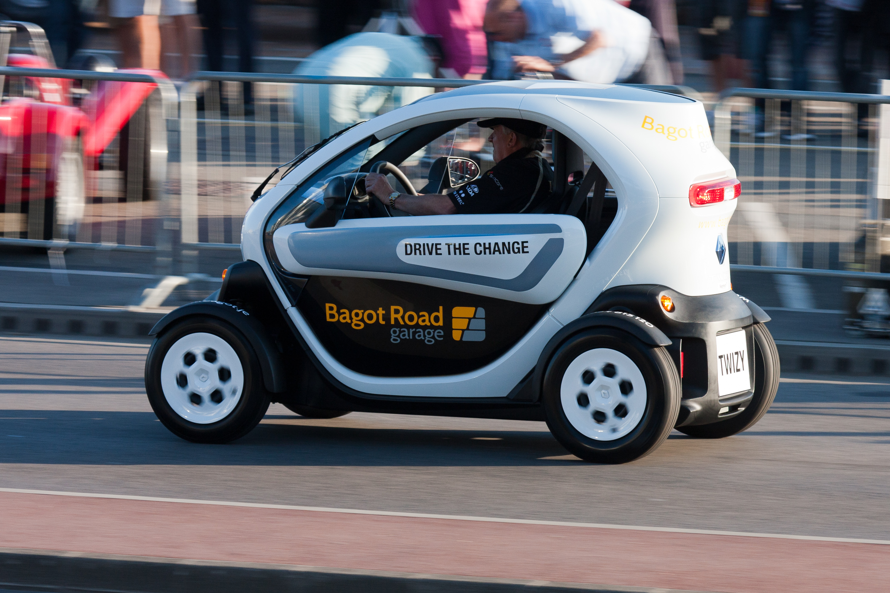 The RUBiS Jersey International Motoring Festival, sprint on Victoria Avenue, St. Helier.